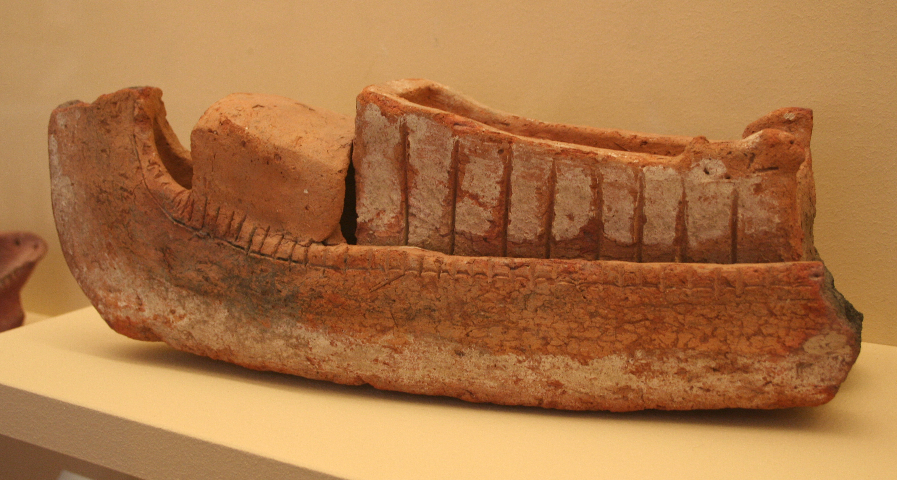 Model of a ship, clay, provenance unknown, Naqada II